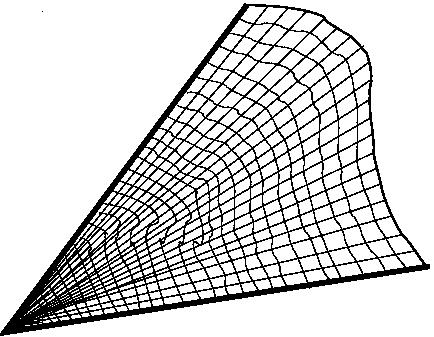 Diagram to illustrate Jacobi vector field